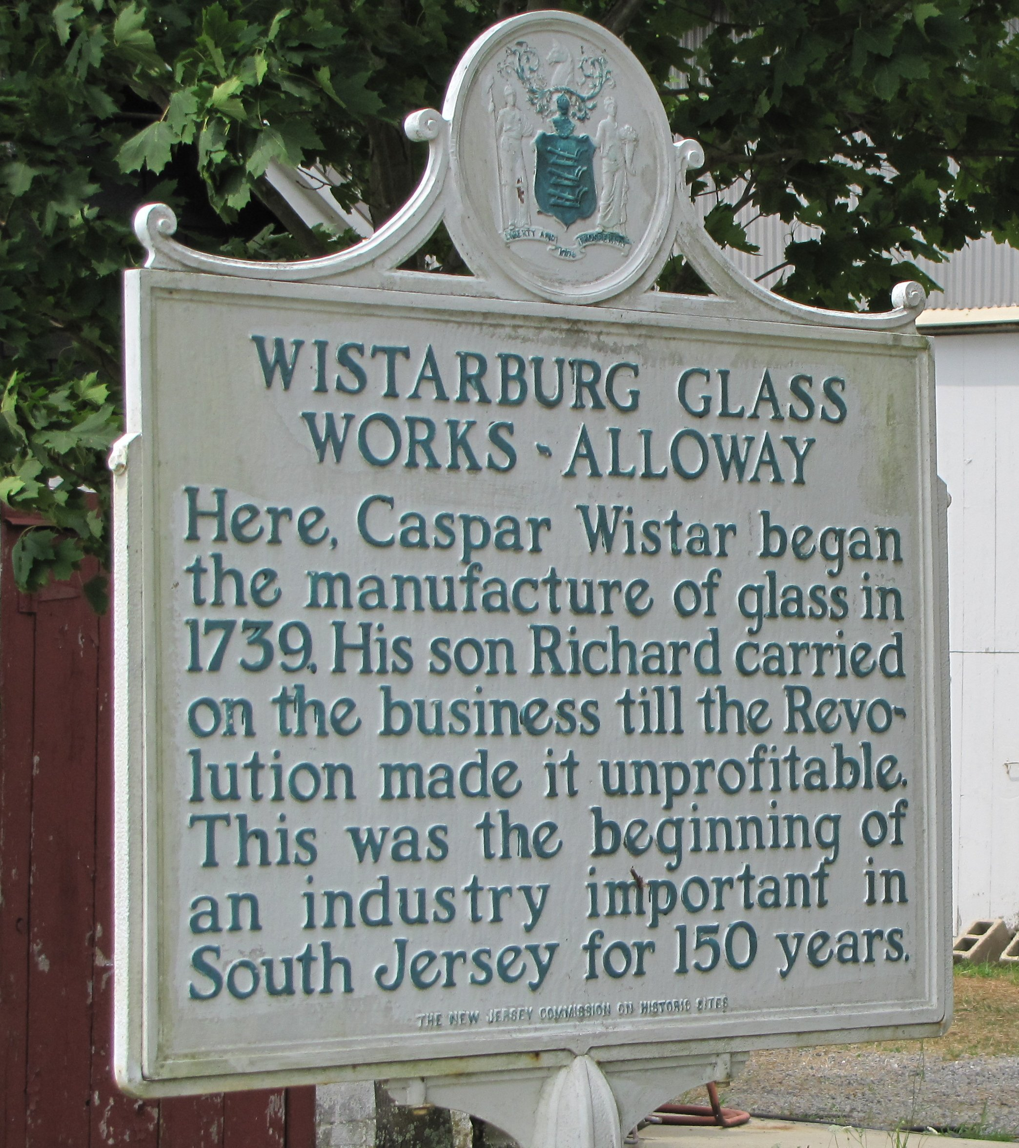 Wistarburg roadsign where the factory once stood